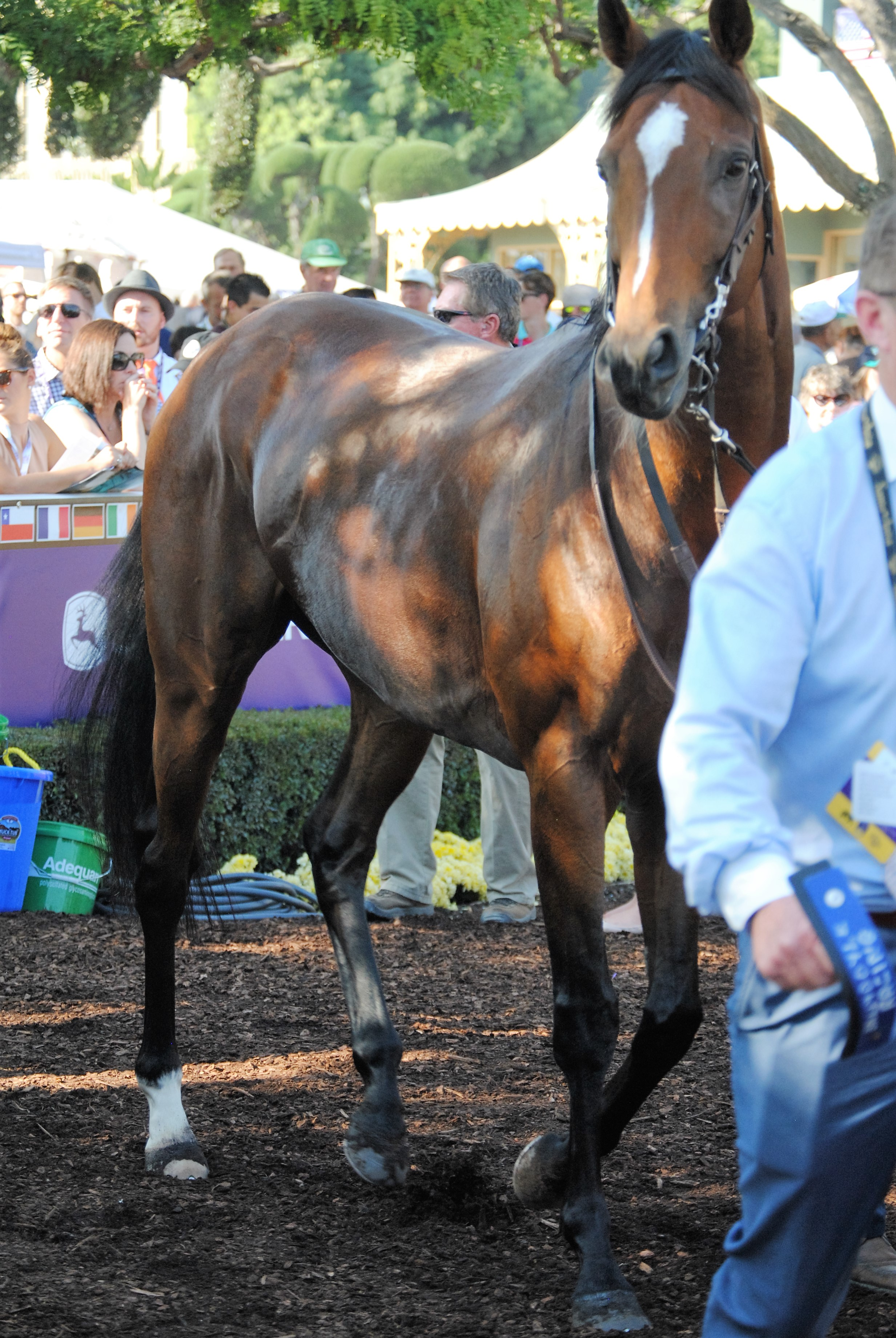 Highland Reel to the saddling area